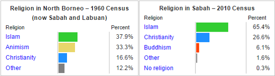 Religion comparison of North Borneo (present-day Sabah) from 1960 and 2010 after undergoing massive controversial political mass conversion change.